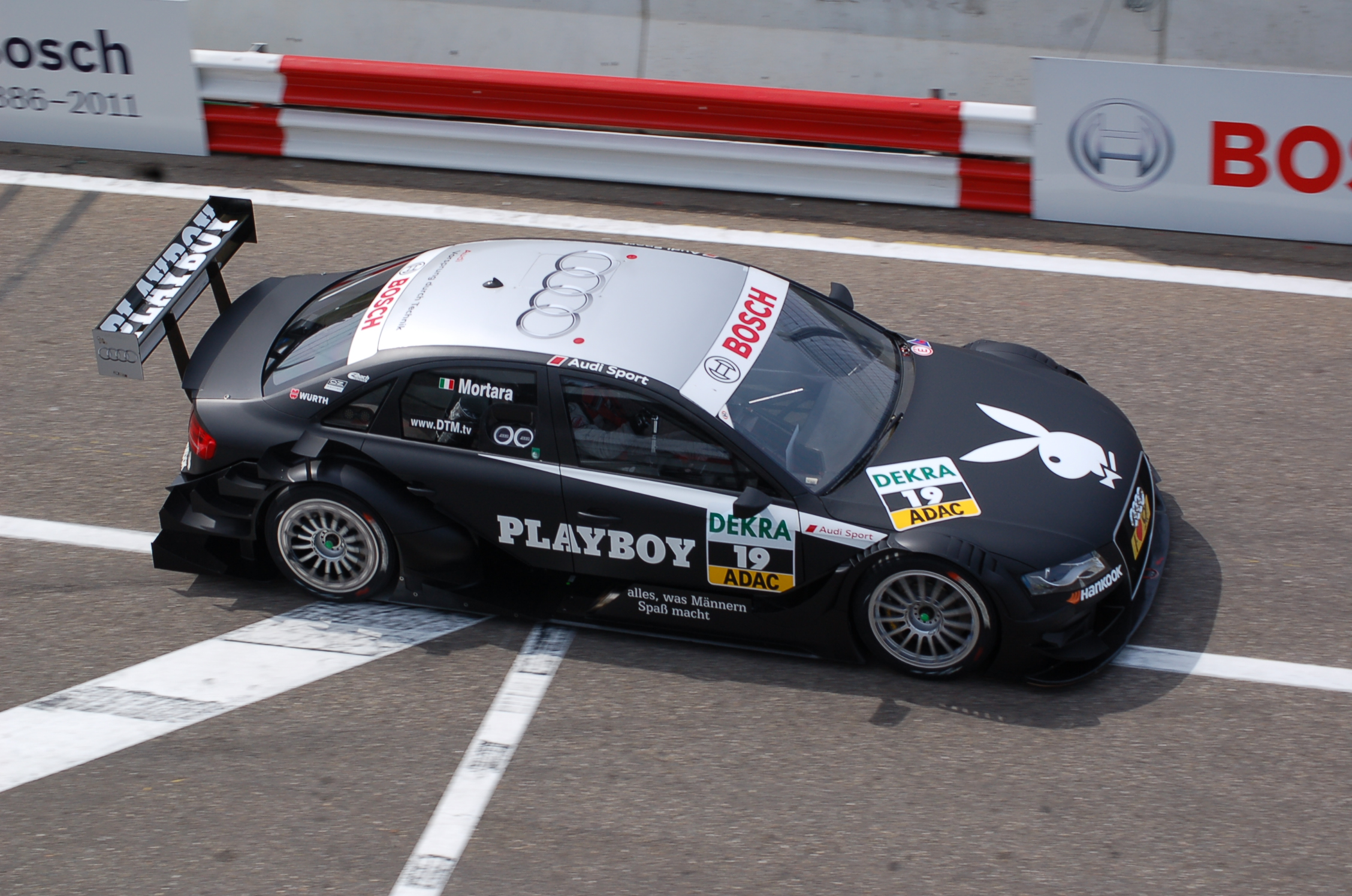 Edoardo Mortara's DTM-Car 2011